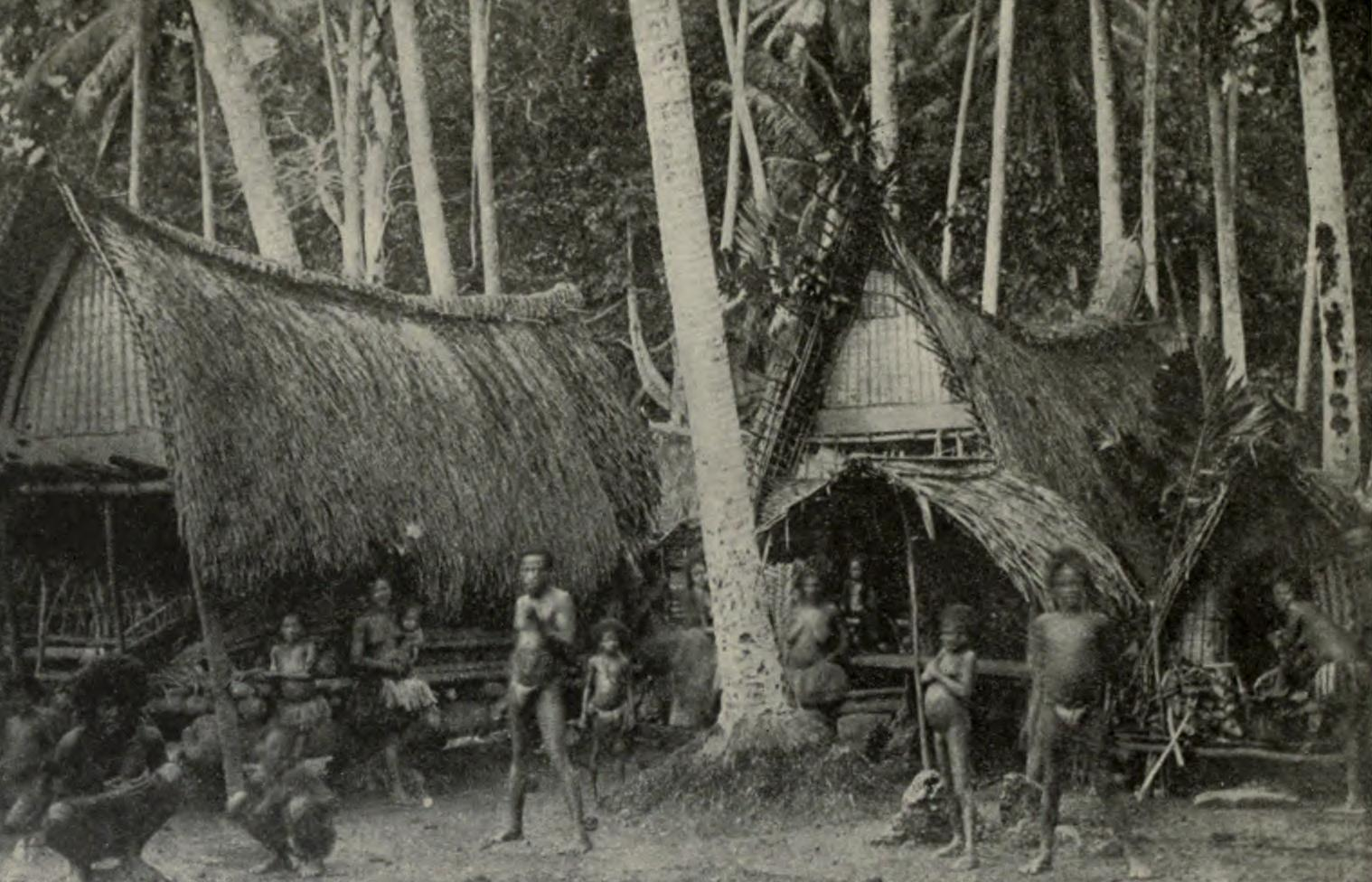 A Kiriwina Village, Memoirs Bishop Museum, Vol. II, Fig. 55.